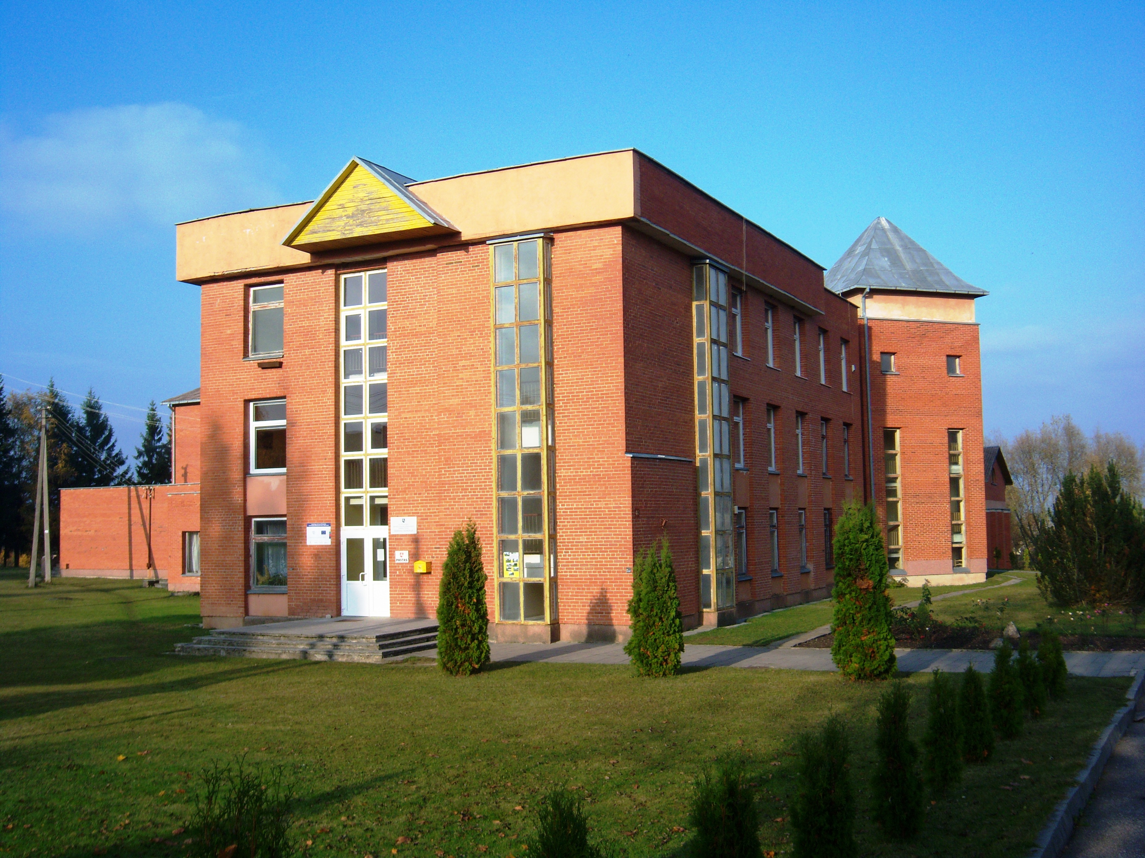 Debeikiai, eldership, Anykščiai District, Lithuania